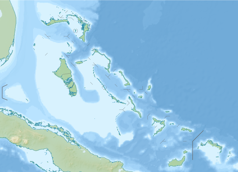 Relief map of the Bahamas Equirectangular projection, N/S stretching 105 %. Geographic limits of the map: N: 27.5° N S: 20.7° N W: 80.7° W E: 70.8° W